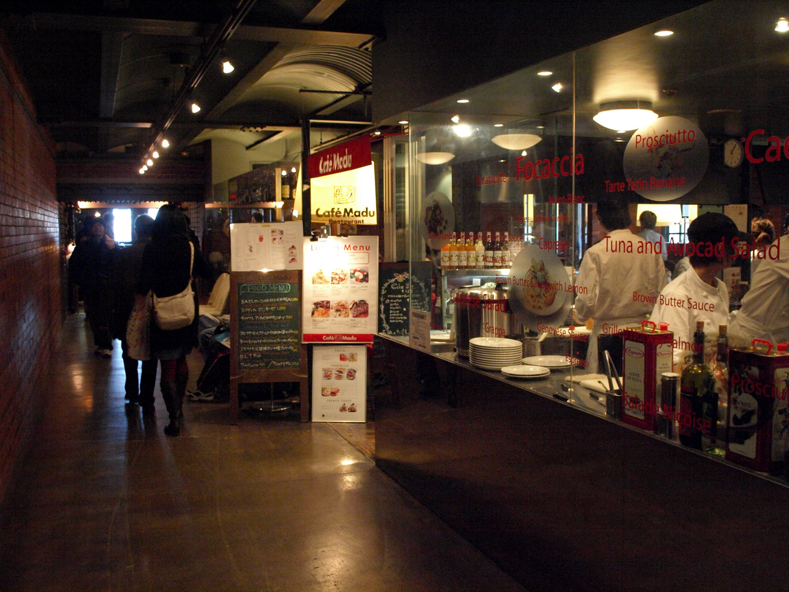 Inside Yokohama Red Brick Warehouse (Building No.2)